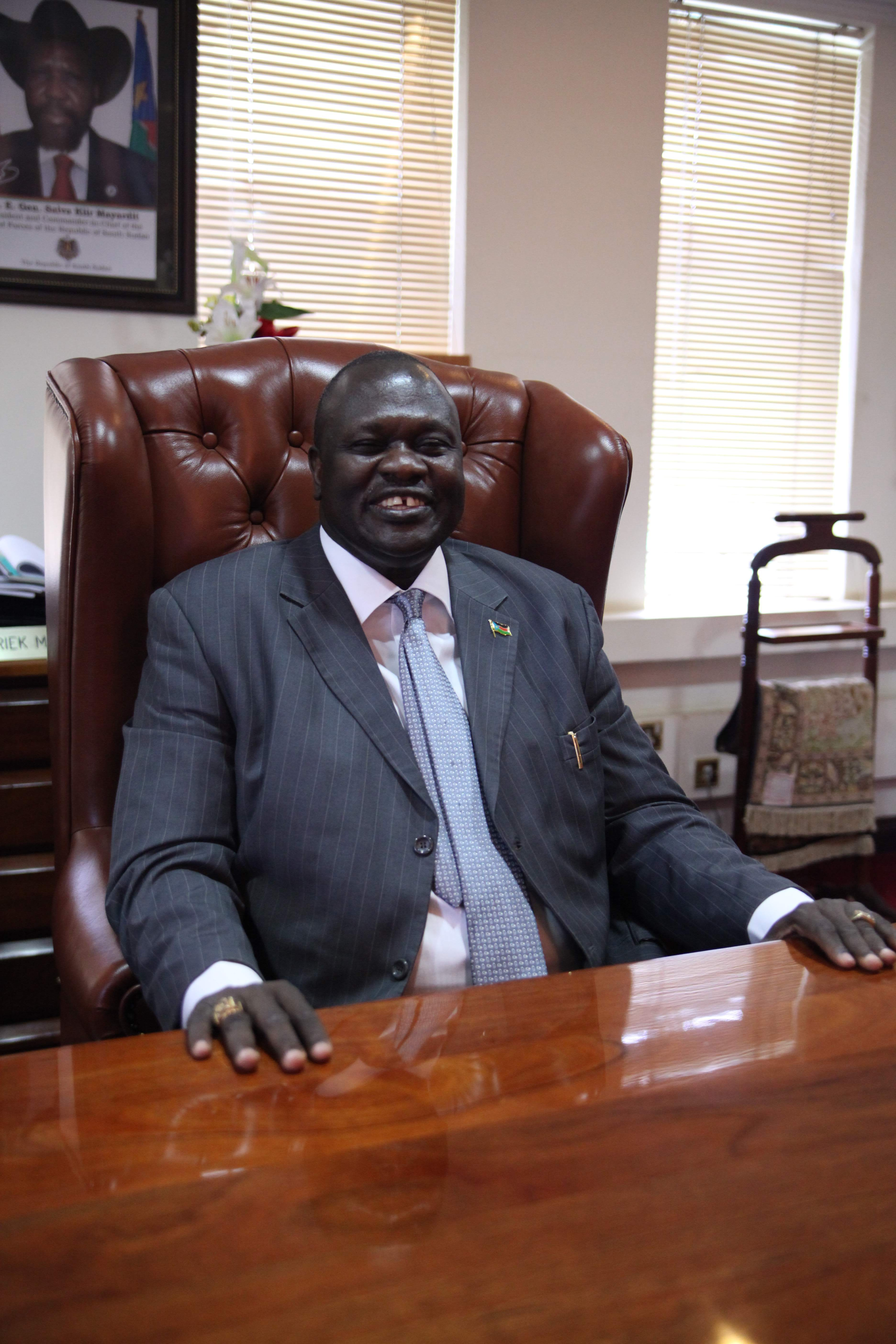 South Sudan's Vice-President Riek Machar is seated in his office, June 30, 2012. (Bug in the lower right corner confirms it's VOA photo, not AP etc).